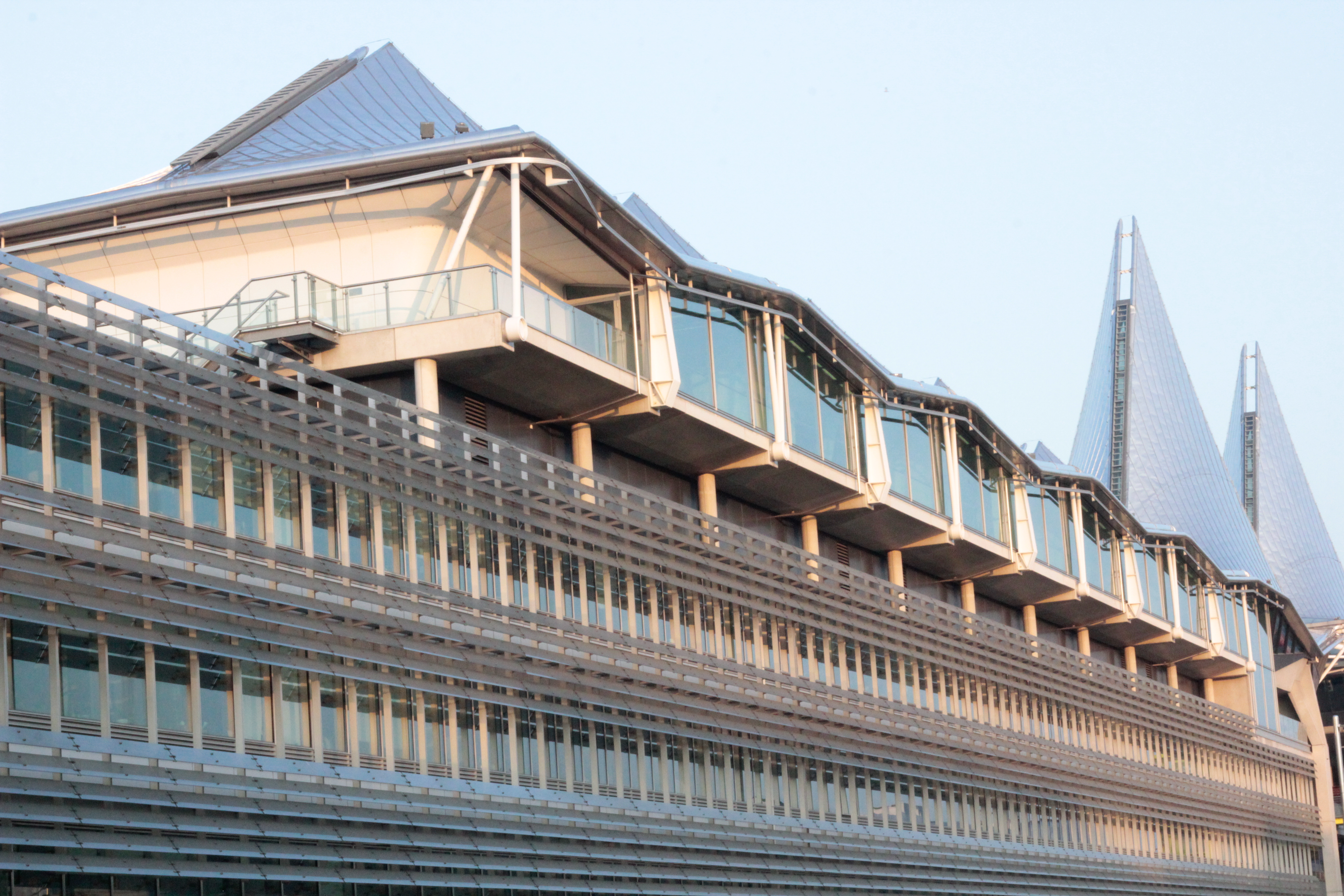 The Antwerp Courthouse is located in the south of the city of Antwerp at the Bolivarplaats where the South Station used to be. The building was designed by architect Richard Rogers Partnership